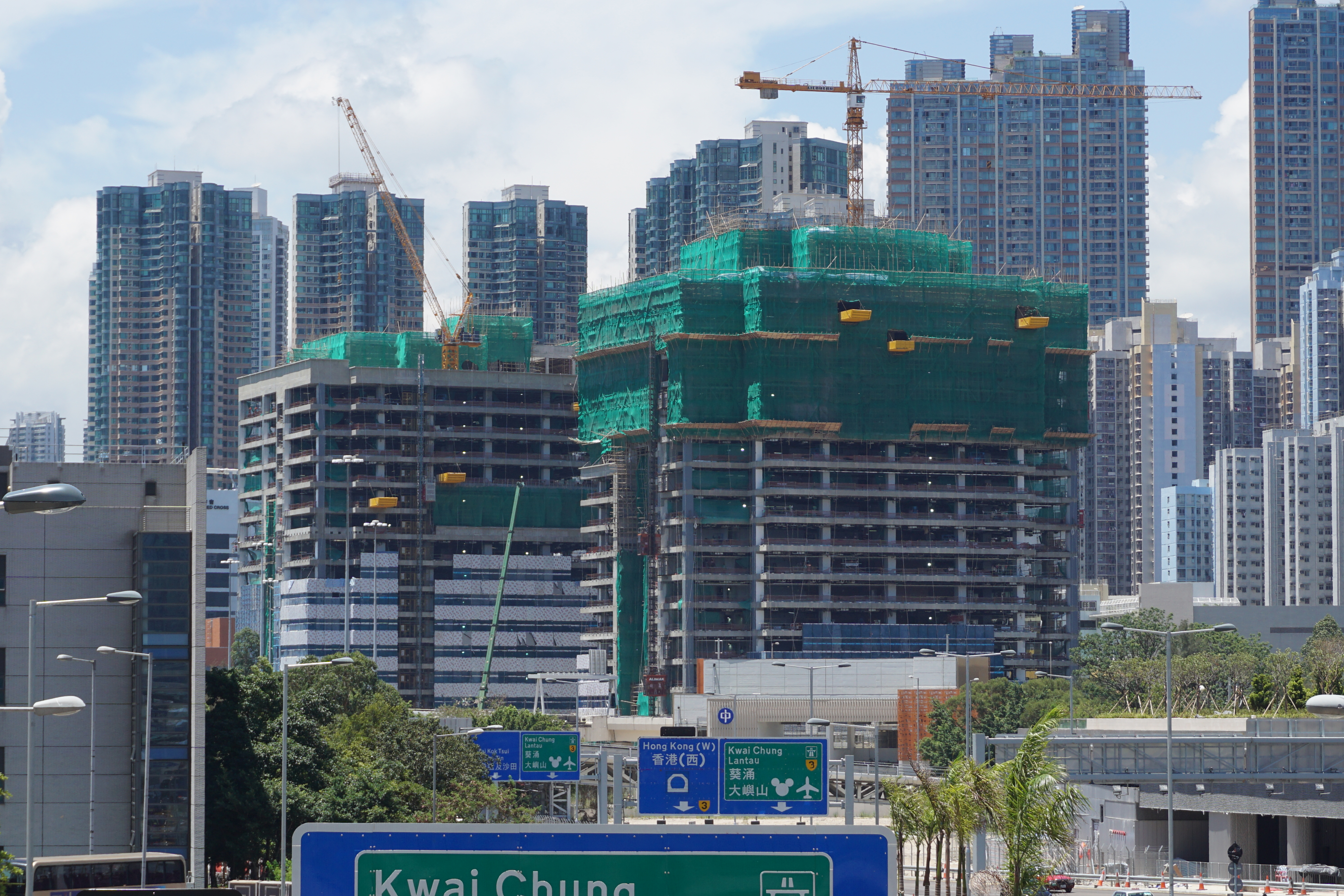 West Kowloon Government Offices in Mong Kok, Hong Kong.